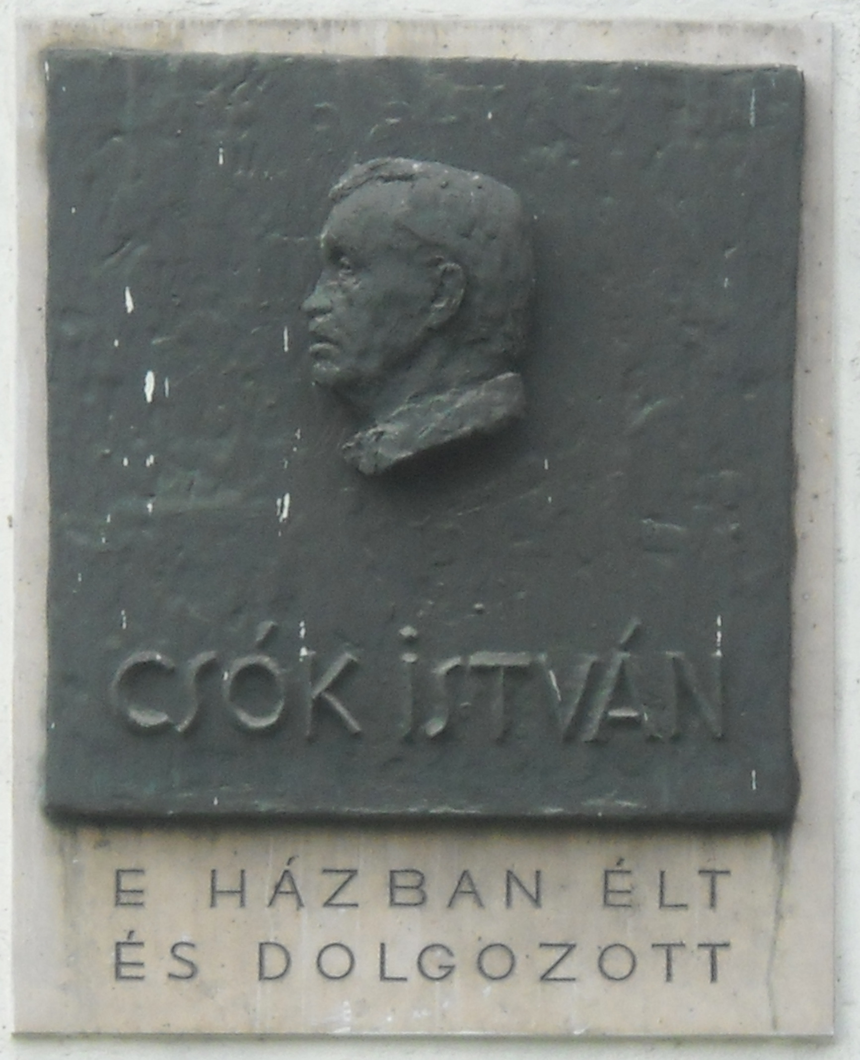 Commemorative plaque of István Csók in Budapest District VI, Városligeti Alley No 32